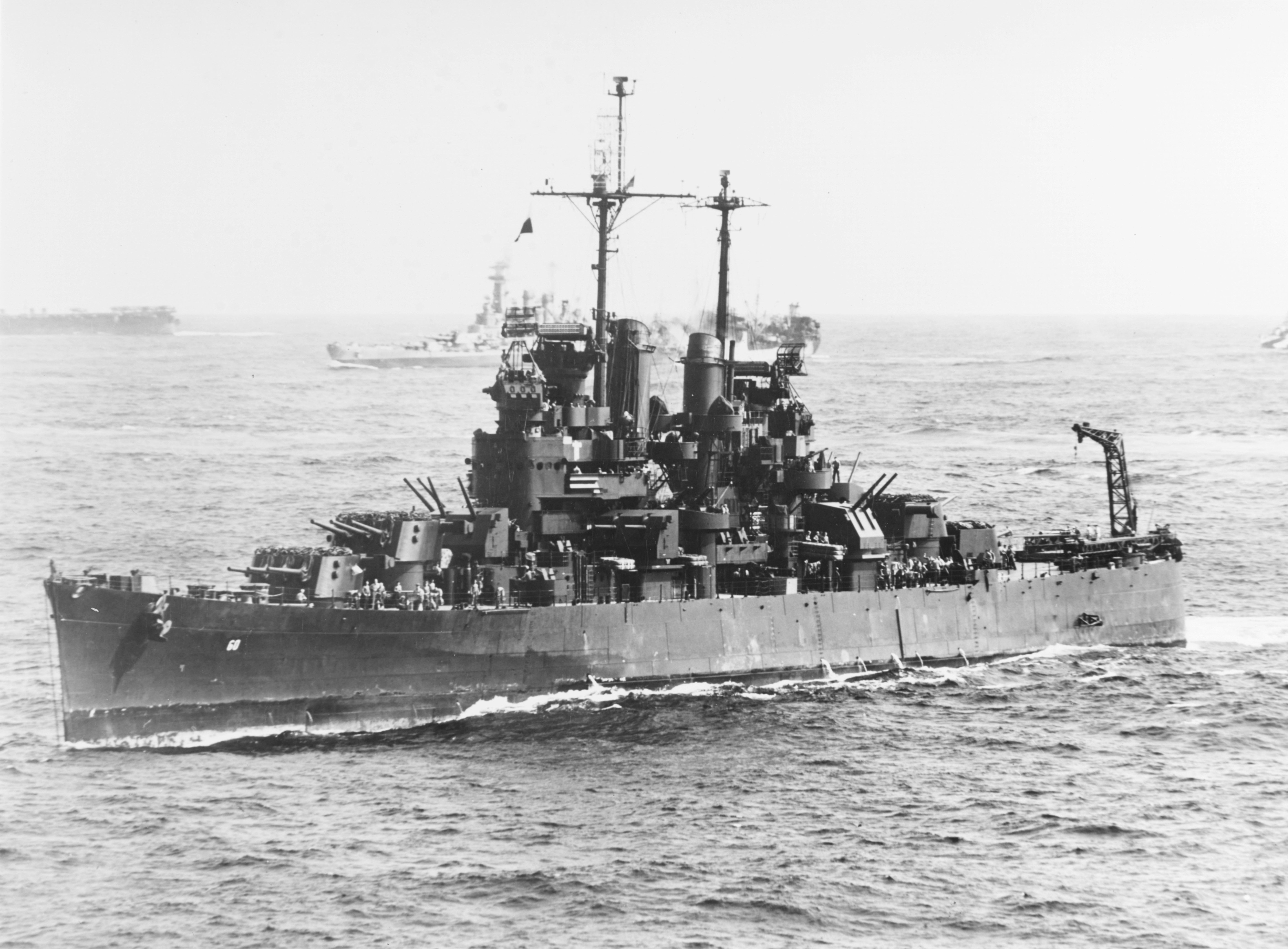 The U.S. Navy light cruiser USS Santa Fe (CL-60) at sea during the Philippines campaign, 12 December 1944. The battleship USS Washington (BB-56) is alongside an oiler in the center background.